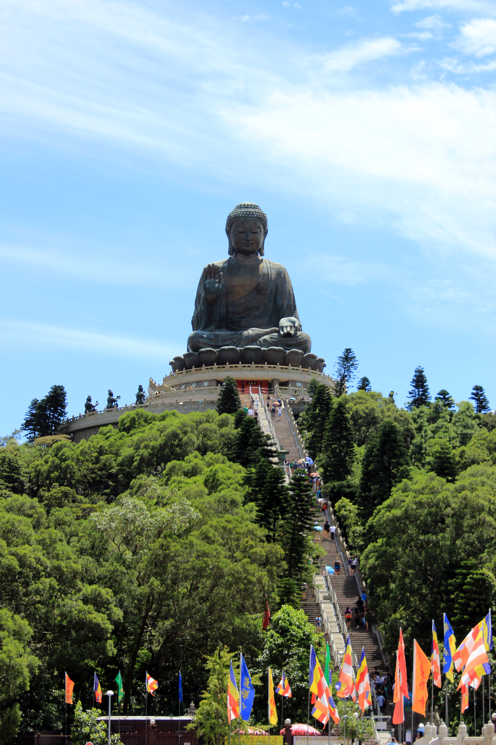 The Big Buddha